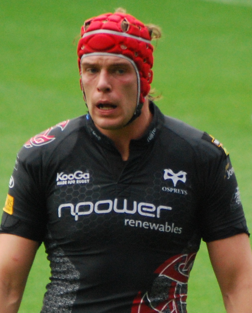 Group Game: 5 October 2008 First Round Pool Game: 5 October 2008. Result Ospreys 24 Harlequins 23. First Round Pool Game: 5 October 2008. Result Ospreys 24 Harlequins 23.